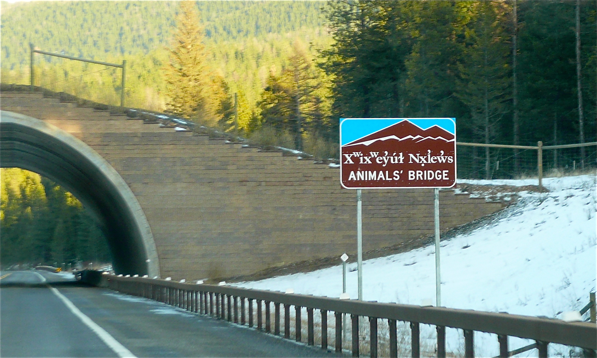 Animals' Bridge on Route 93 near Evaro, Montana, on the Flathead Indian Reservation. Sign in English and Salish language.[1] ↑ Devlin, Vince (Cot. 3, 2010). "Cameras show wildlife use Highway 93 North overpass and tunnels". The Missoulian. Missoula, MT: . Retrieved on Feb. 28, 2011.